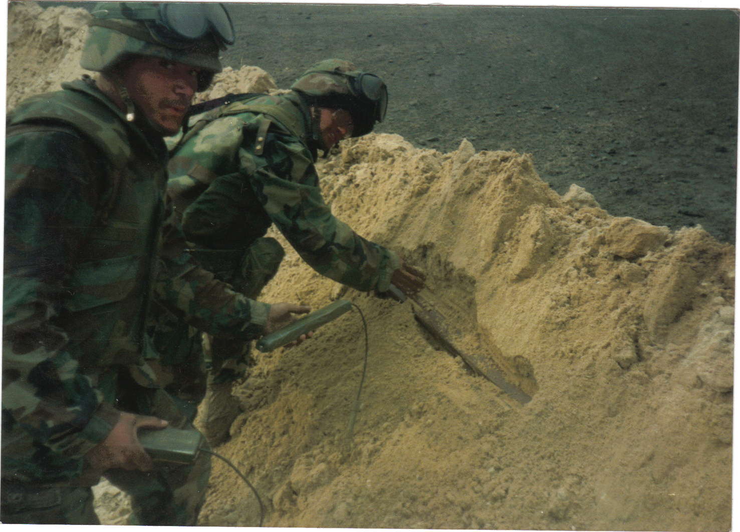 we didnt mess around , mines left in the burm were blowed in place with c-4 . L\cpl Stamper J.L. U.S.Marines